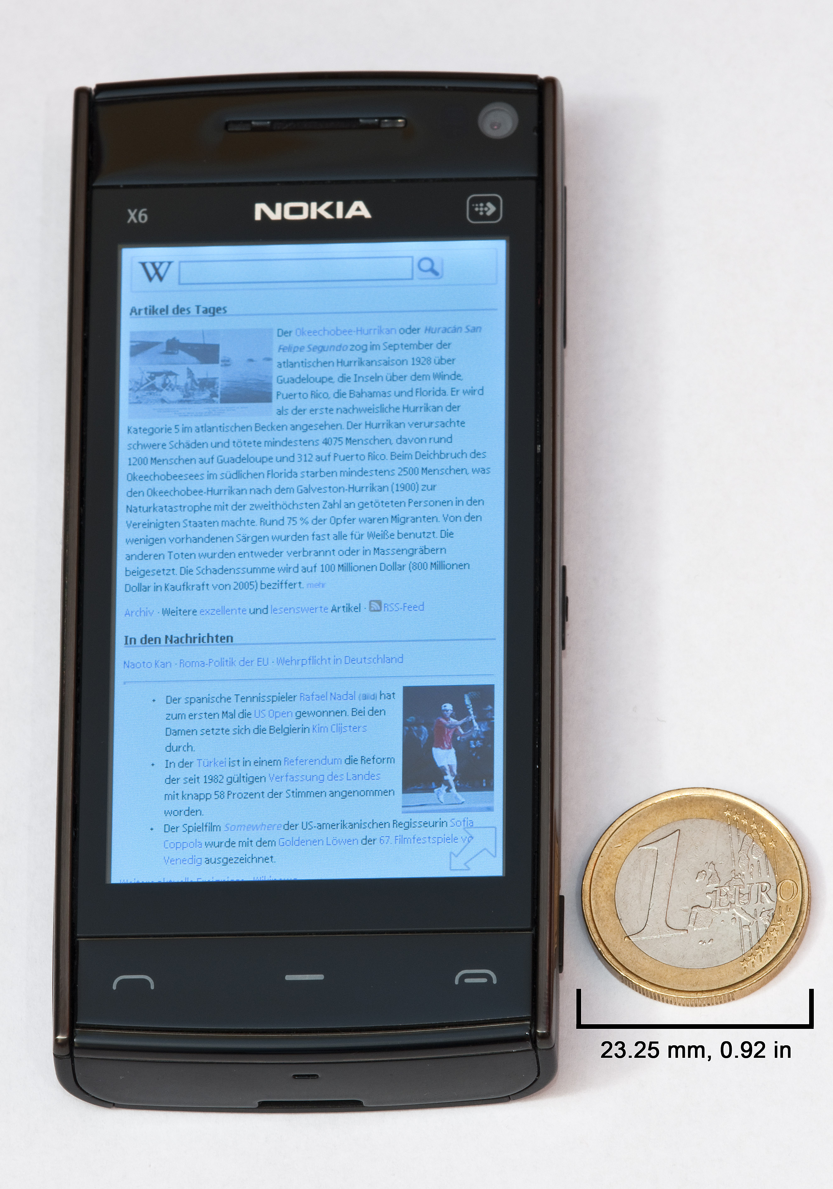 Mobile phone Nokia X6 16GB